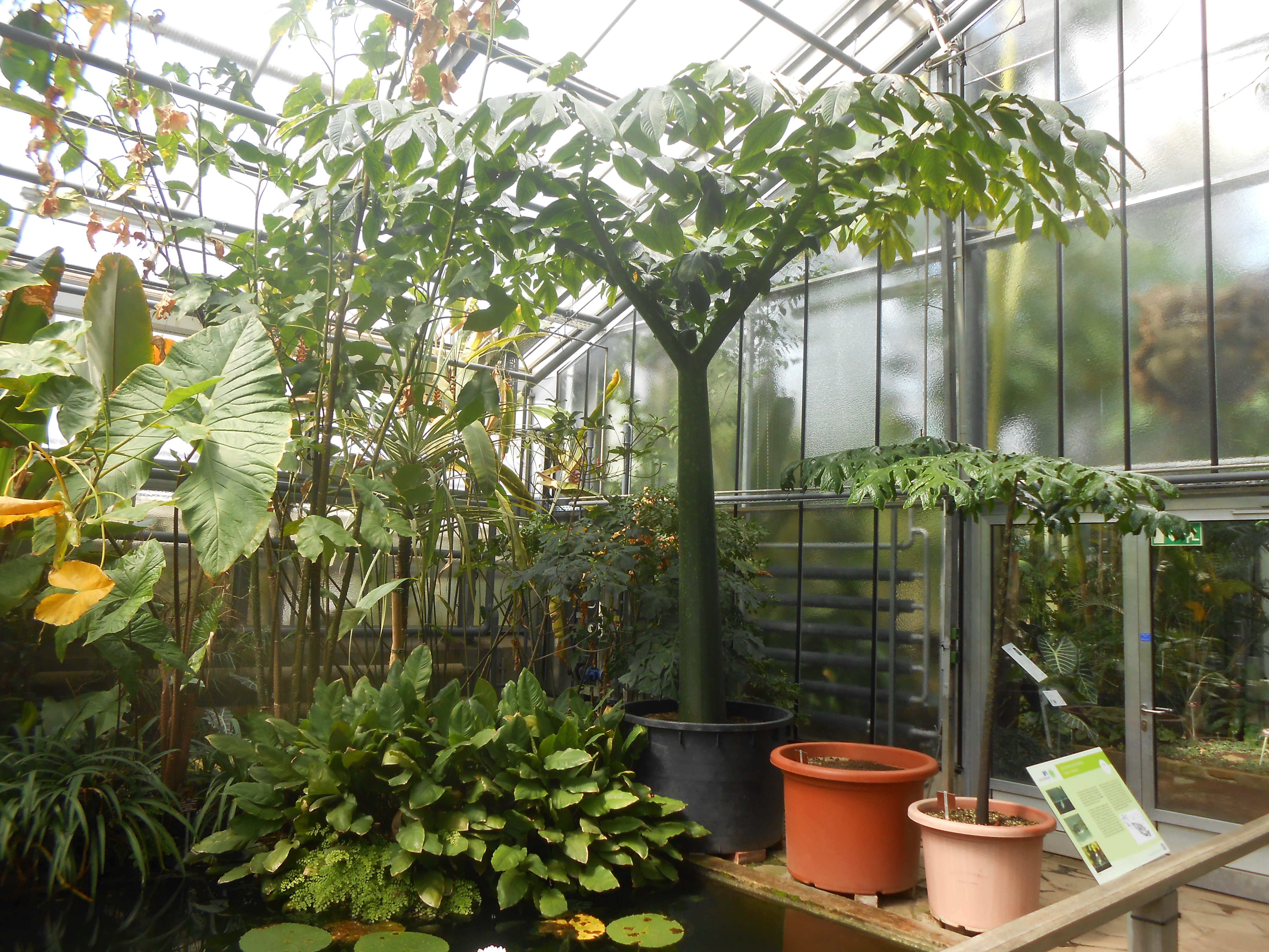 Leaf of titan arum